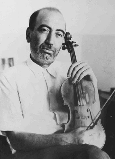 Abolhasan SabÄ (1902-1957), Iranian musician, composer, violinist and setar player. Licensing Source: Poyan Abdoli.